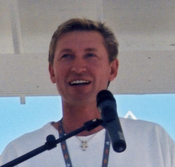 Wayne Gretzky, speaking at Sir Winston Churchill Square in downtown Edmonton, during the 2001 IAAF World Championships in Athletics. (closeup, cropped version of Image:Gretzky aug2001.jpg.)